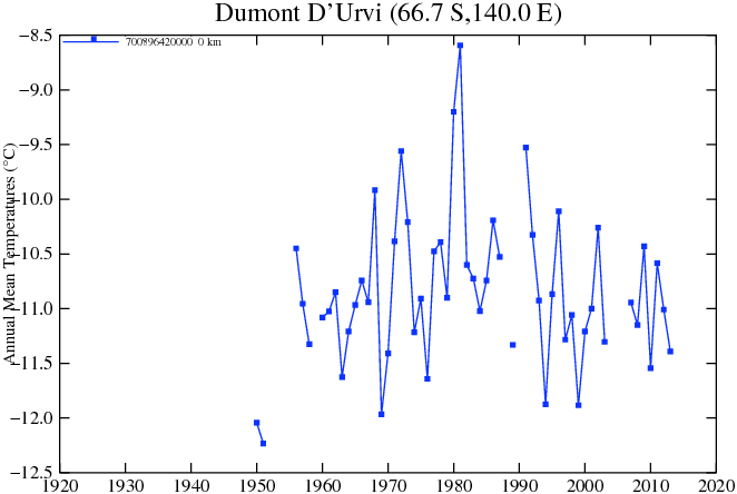 Climate graph of 1950 2014 air average temperaturas at D'Urvi Base